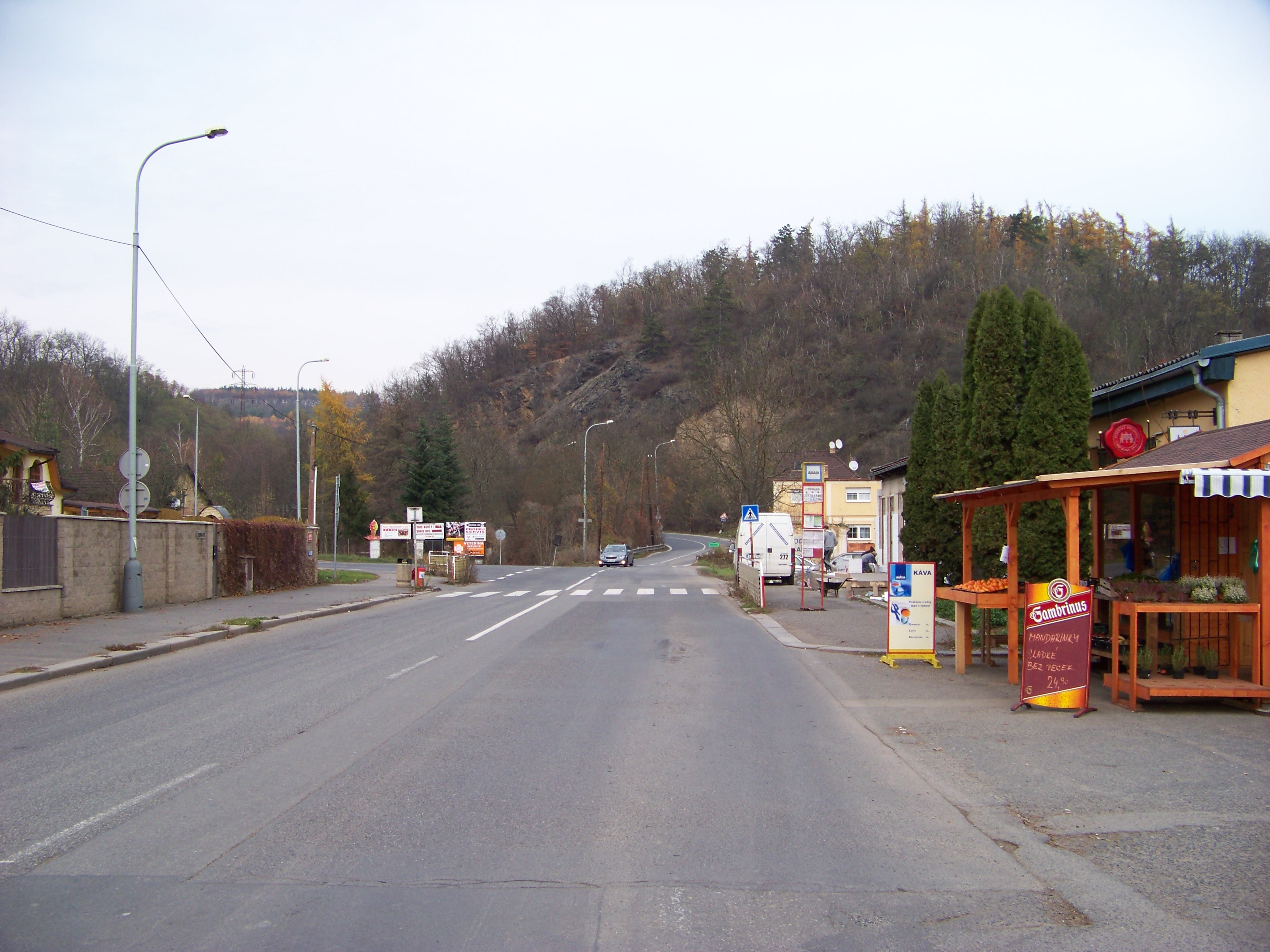 Prague-Dejvice, the Czech Republic. Jenerálka, Horoměřická 2337/8, Jenerálka restaurant, bus stop Jenerálka.